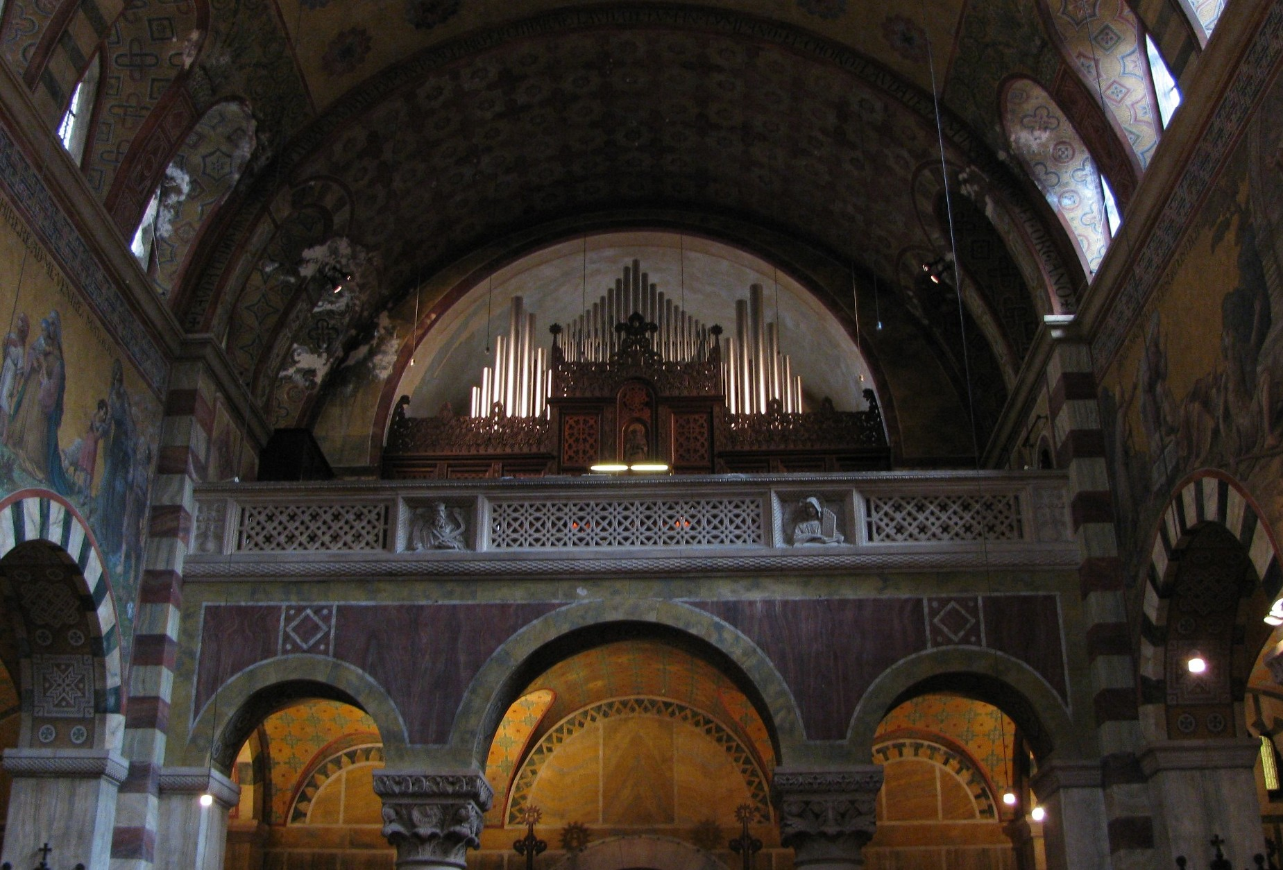 View of the Eggert organ of the Herz-Jesu church, on the left side damages of the mural painting. (2009)